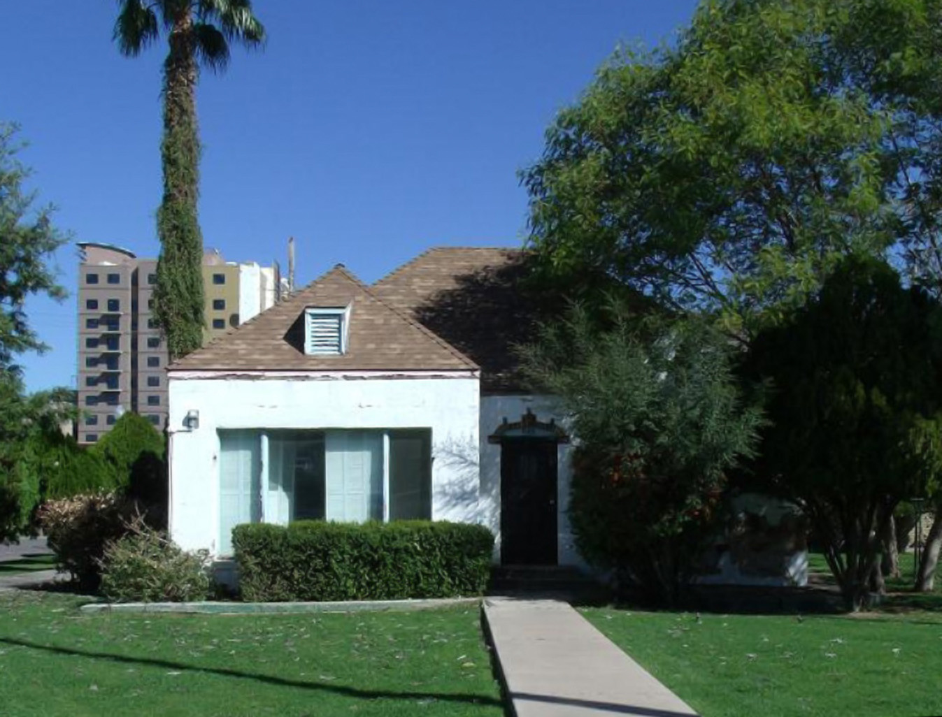 The Harrington-Birchett House was built in 1895 and is located at 202 E. 7th Street. The house was built by J.W. Harrington and sold in 1904 to Mattie Birchett. Matties' son, Joseph T. Birchett married Guess Eleanor Anderson that same year. Guess was the sister of Honor Anderson Moeur, wife of Arizona Governor Benjamin B. Moeur. It was listed in the National Register of Historic Places on May 7, 1984 reference #84000716.